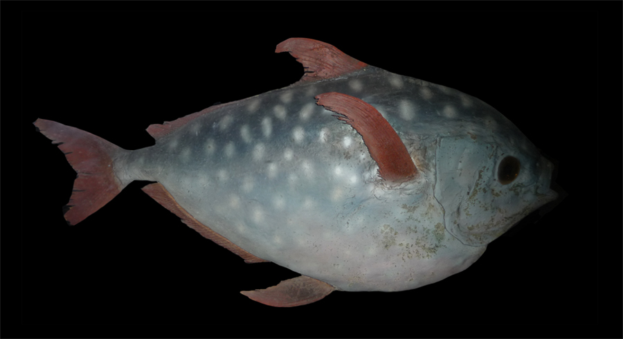 Lampris guttatus